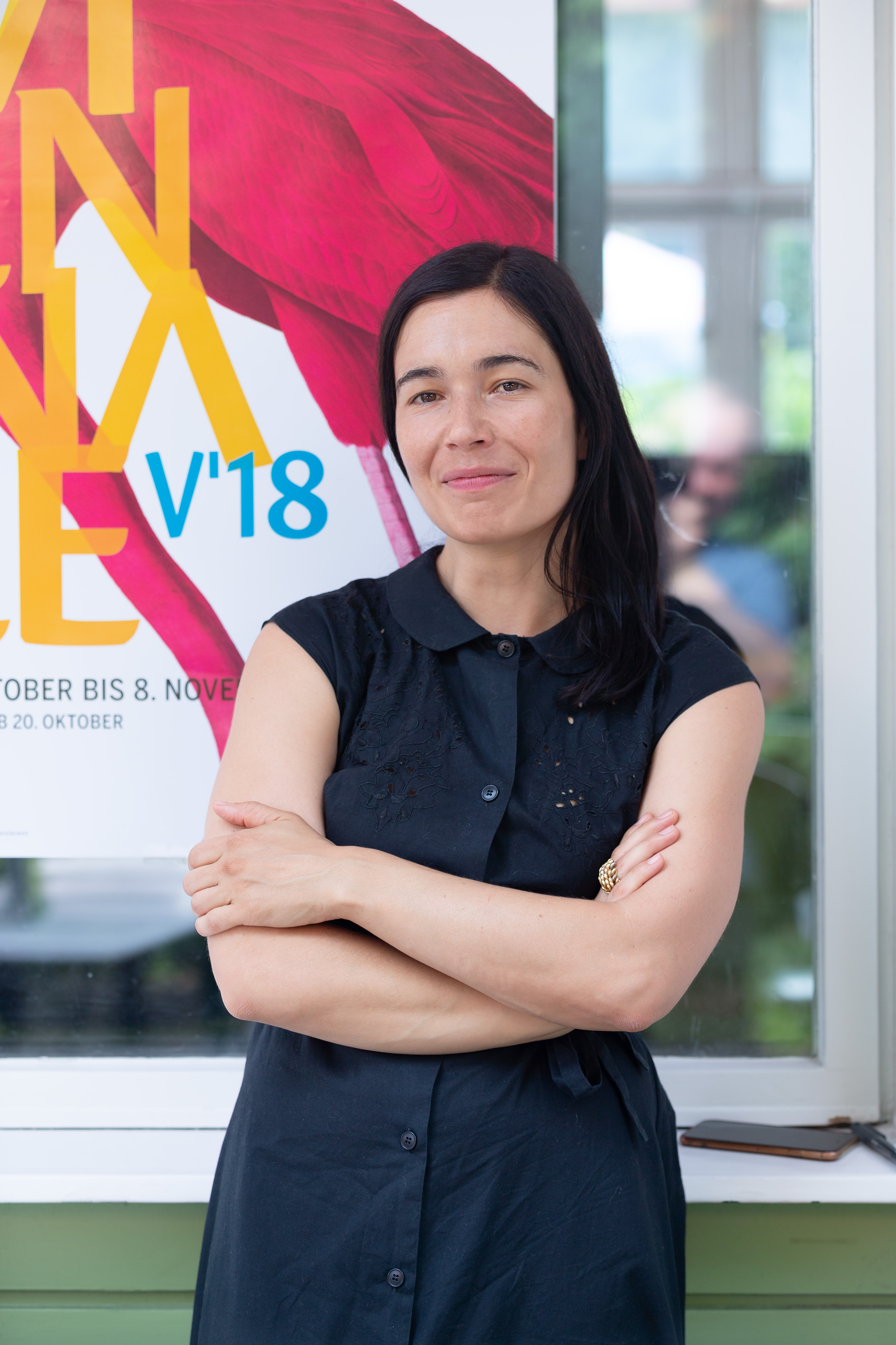 Eva Sangiorgi, summer press conference and first program preview for the Vienna International Film Festival 2018 (Volksgarten Pavillon, Vienna, Austria).